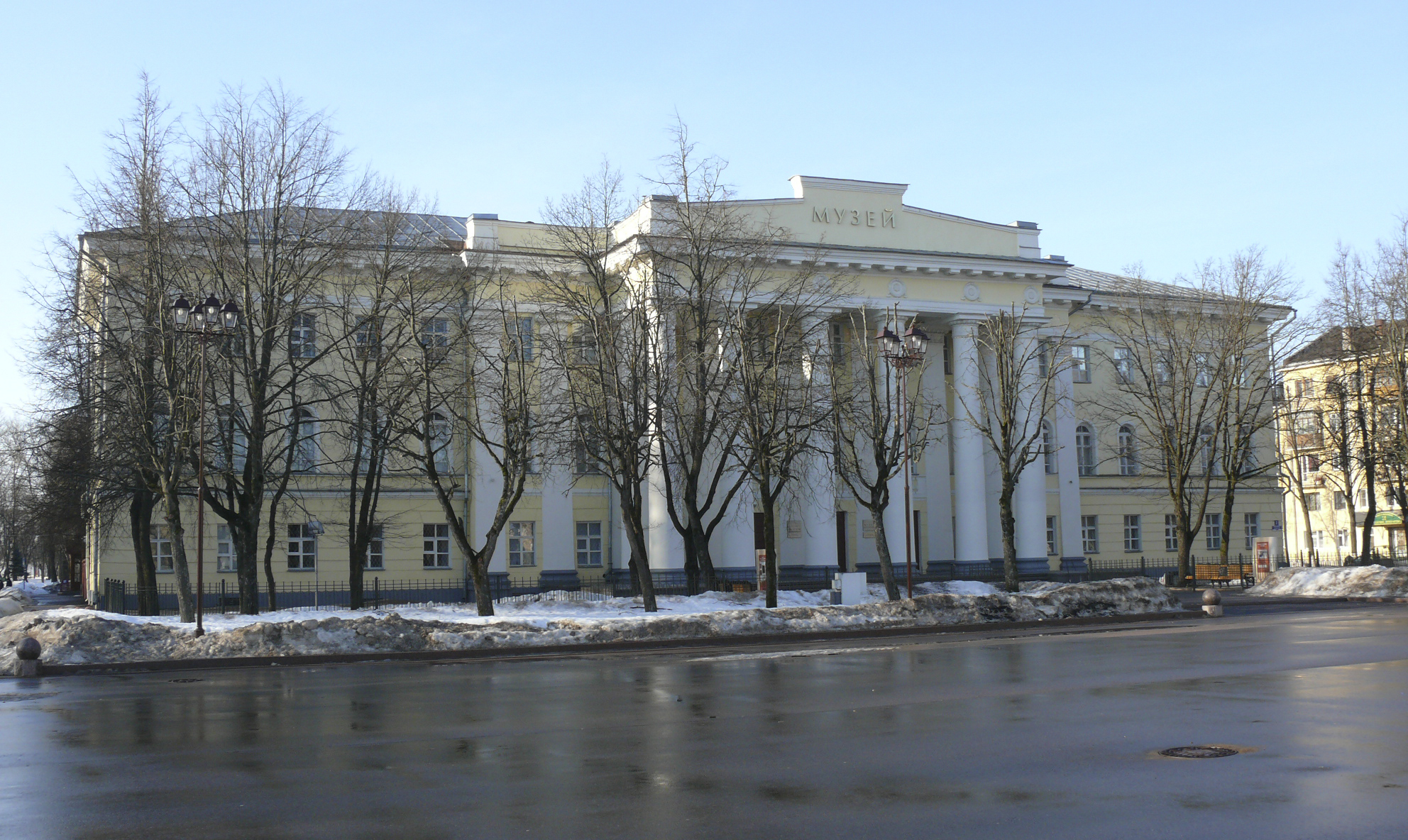 Fine arts Museum in Veliky Novgorod, Russia